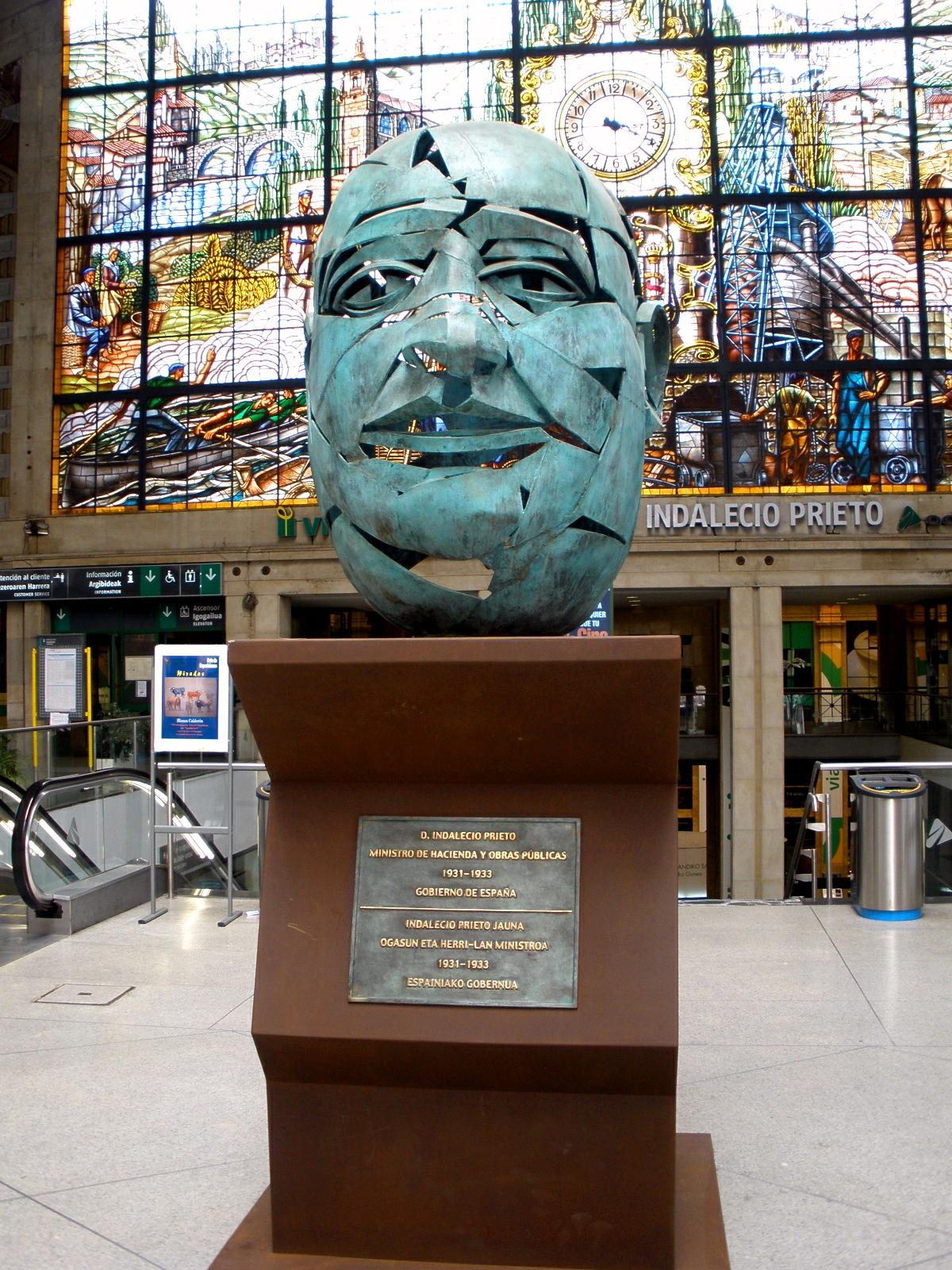 Monumento a Indalecio Prieto en la Estación de Abando Indalecio Prieto, en Bilbao (España)